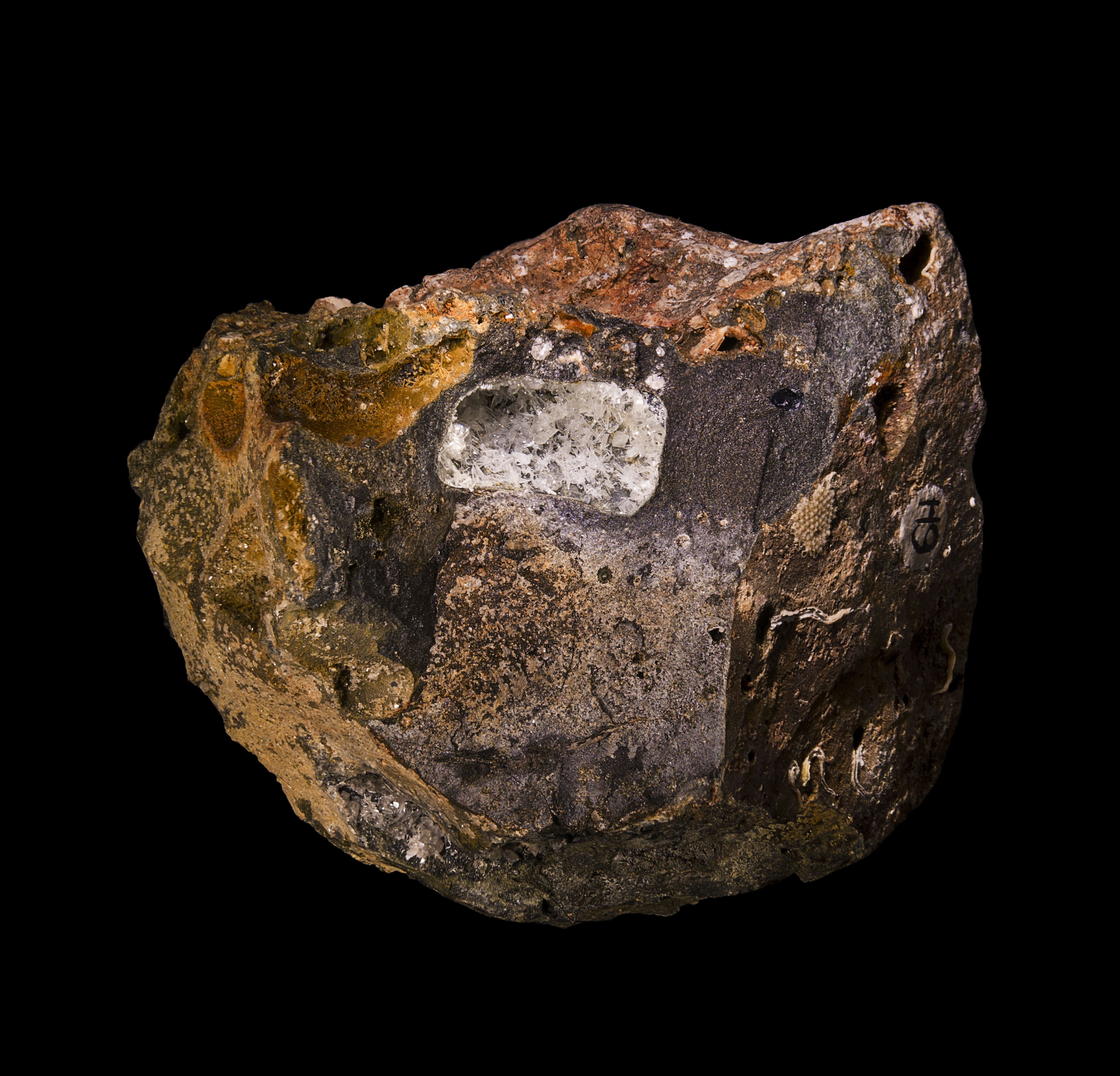 Laurionite Locality : Thorikos Bay slag locality, Thorikos area, Lavrion District slag localities, Lavrion (Laurion; Laurium) District, Attikí (Attica; Attika) Prefecture, Greece Size :5.6x5.2x4cm